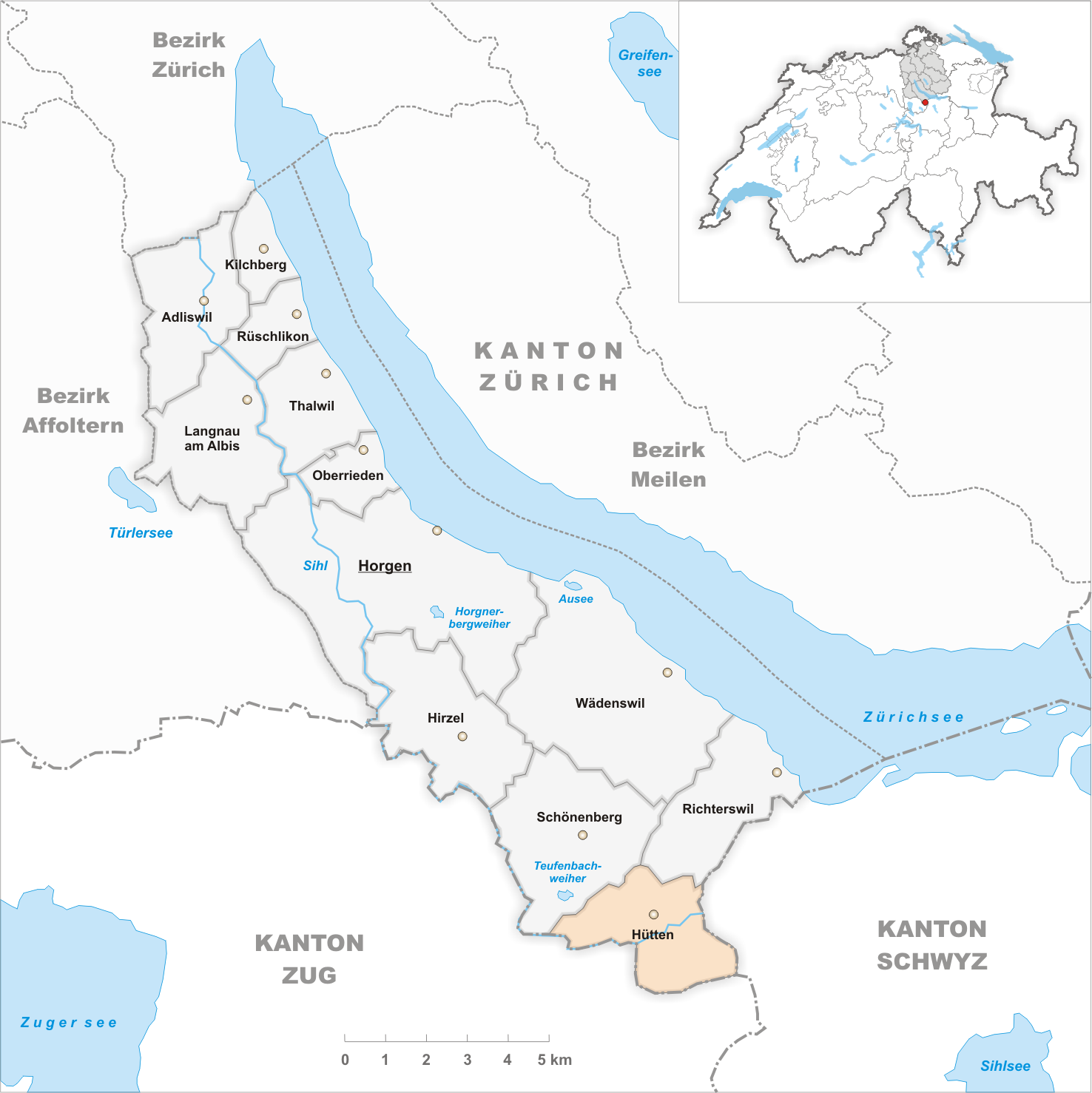 Municipality Hütten